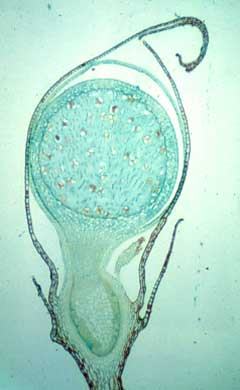 Cross section of the mature sporophyte of Porella (leafy liverwort).